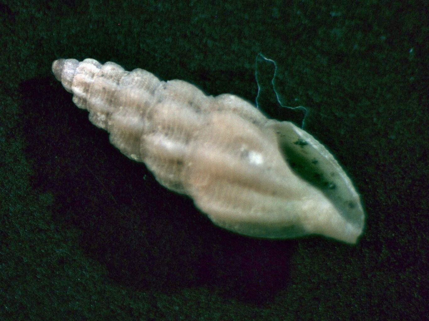 Sorgenfreispira brachystoma (Philippi, 1844) (synonym: Bela brachystoma (Philippi, 1844) ), a snail in the family Mangeliidae; Adriatic Sea